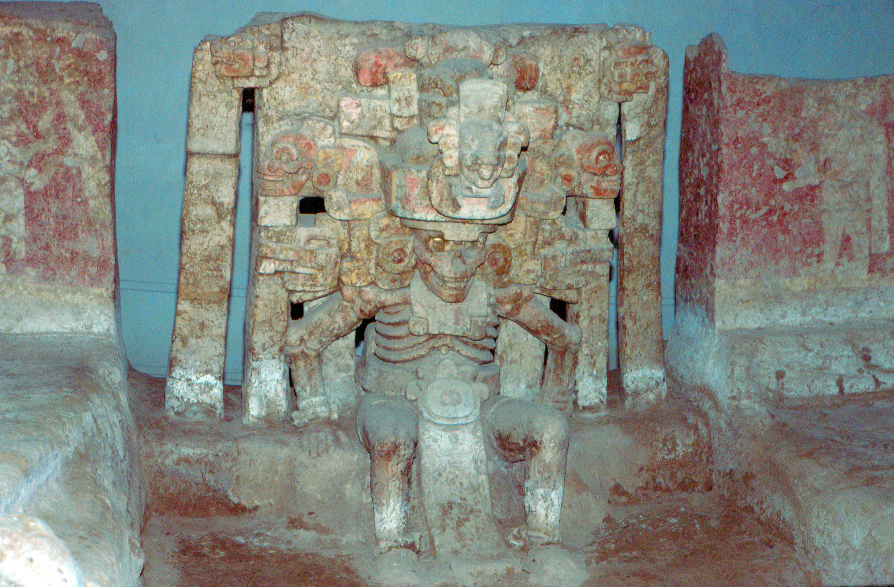 El Zapotal, Veracruz, Mexico: Clay sculpture of Mictantecuhtli.